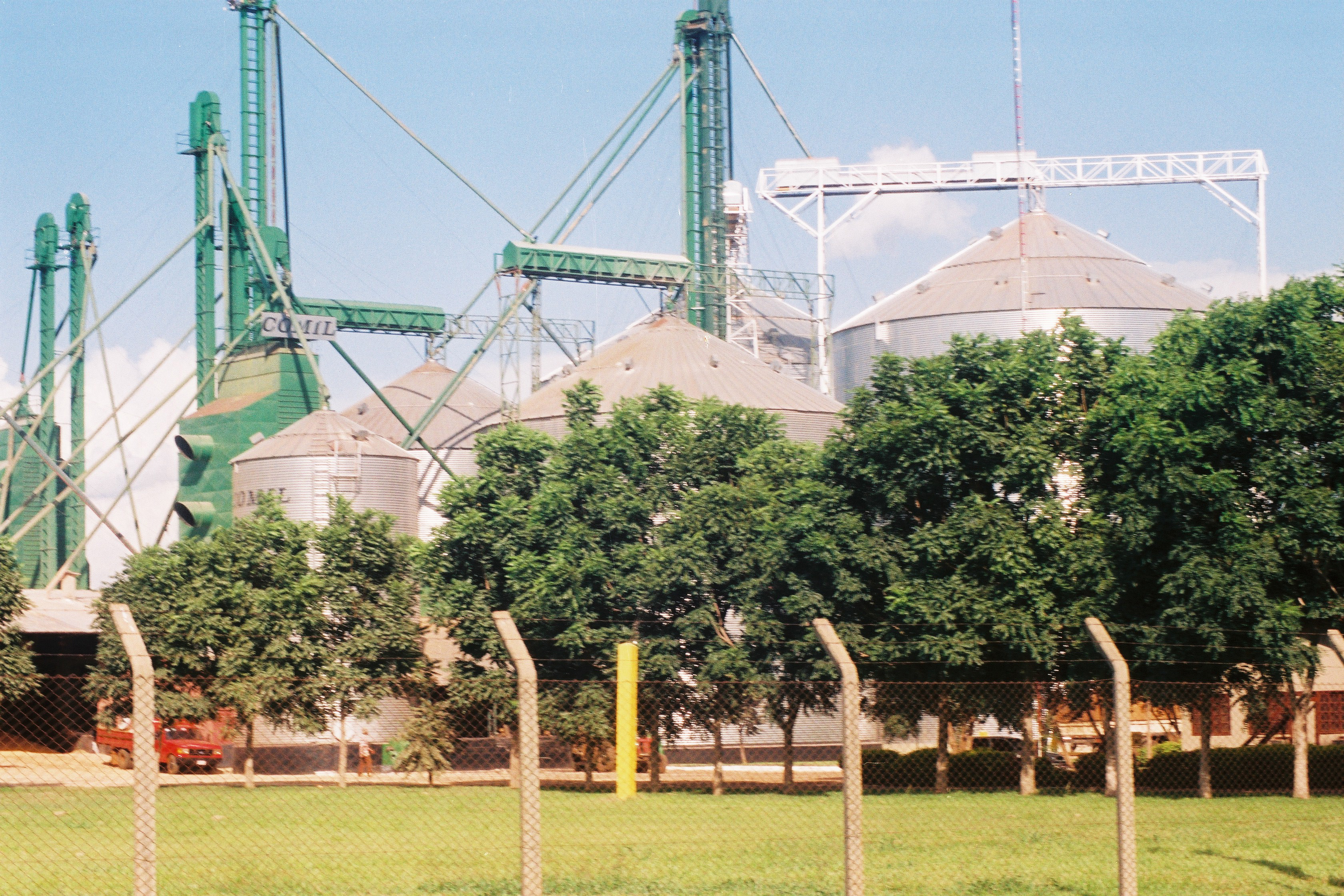 vista de campo de soja y silo de almacenamiento en Paraguay